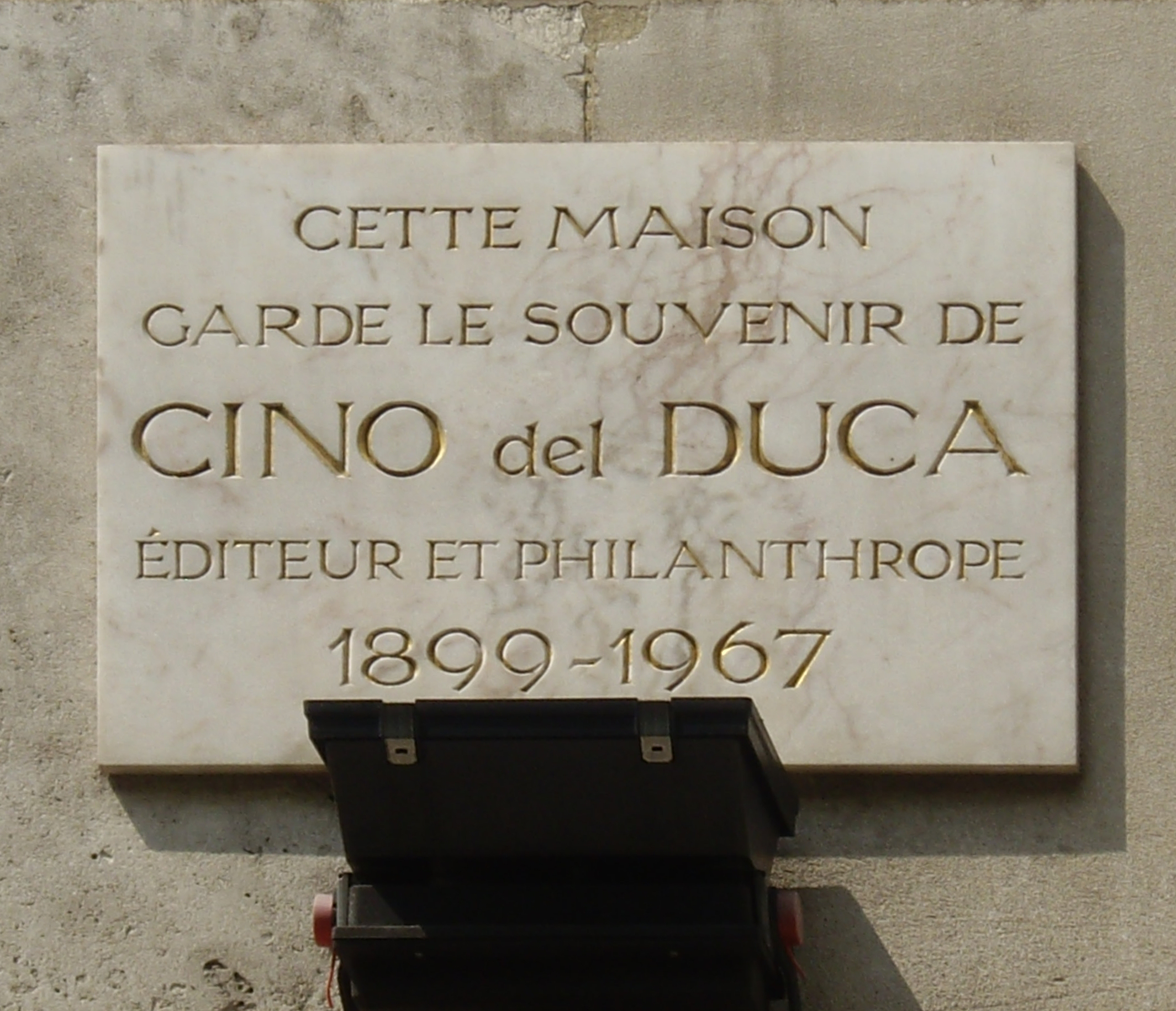 Plaque apposée au n° 26 du boulevard des Italiens, Paris 9e.« Cette maison garde le souvenir de Cino del Duca, éditeur et philanthrope, 1899-1967. »